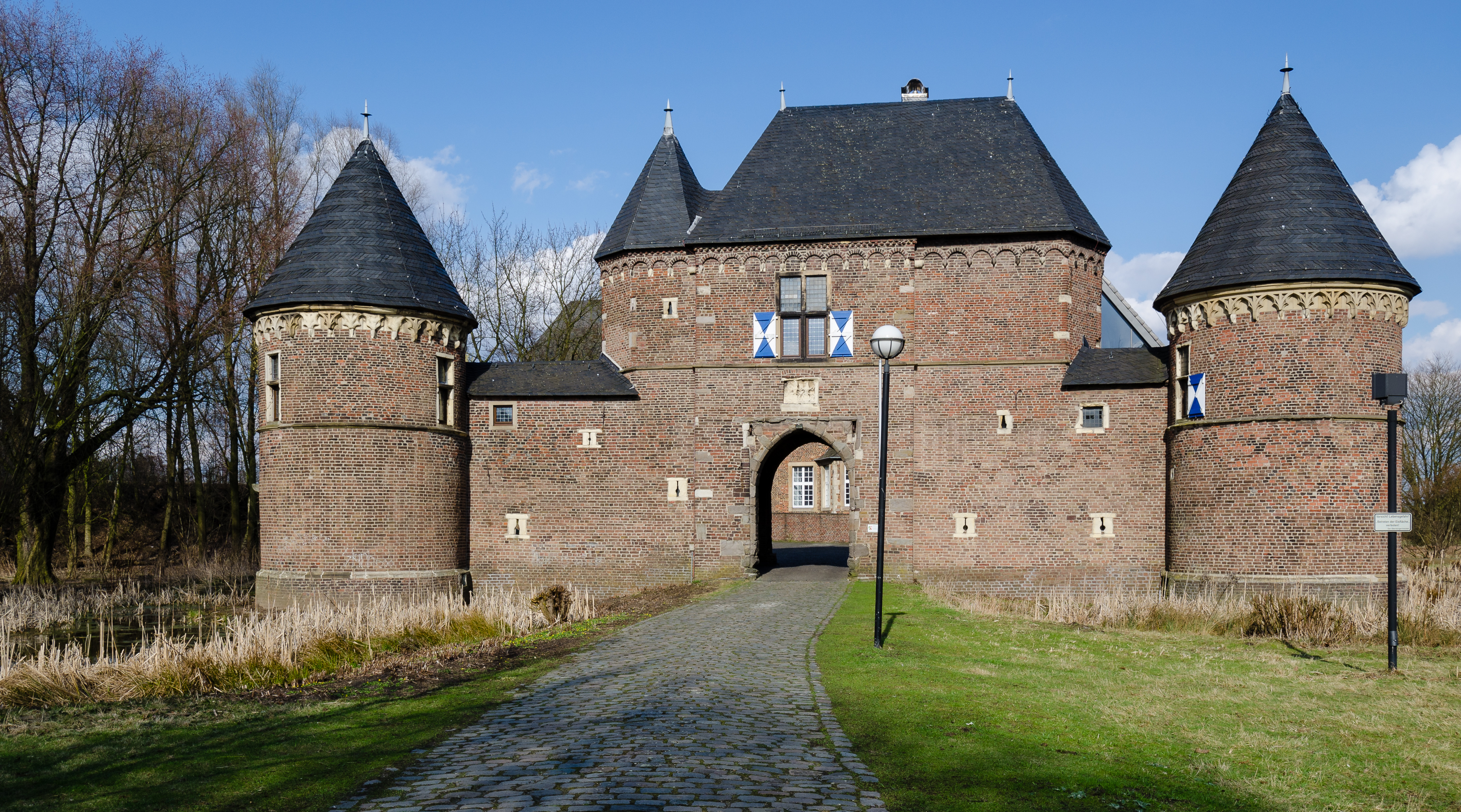 Vondern Castle, west front, photographed from footpath